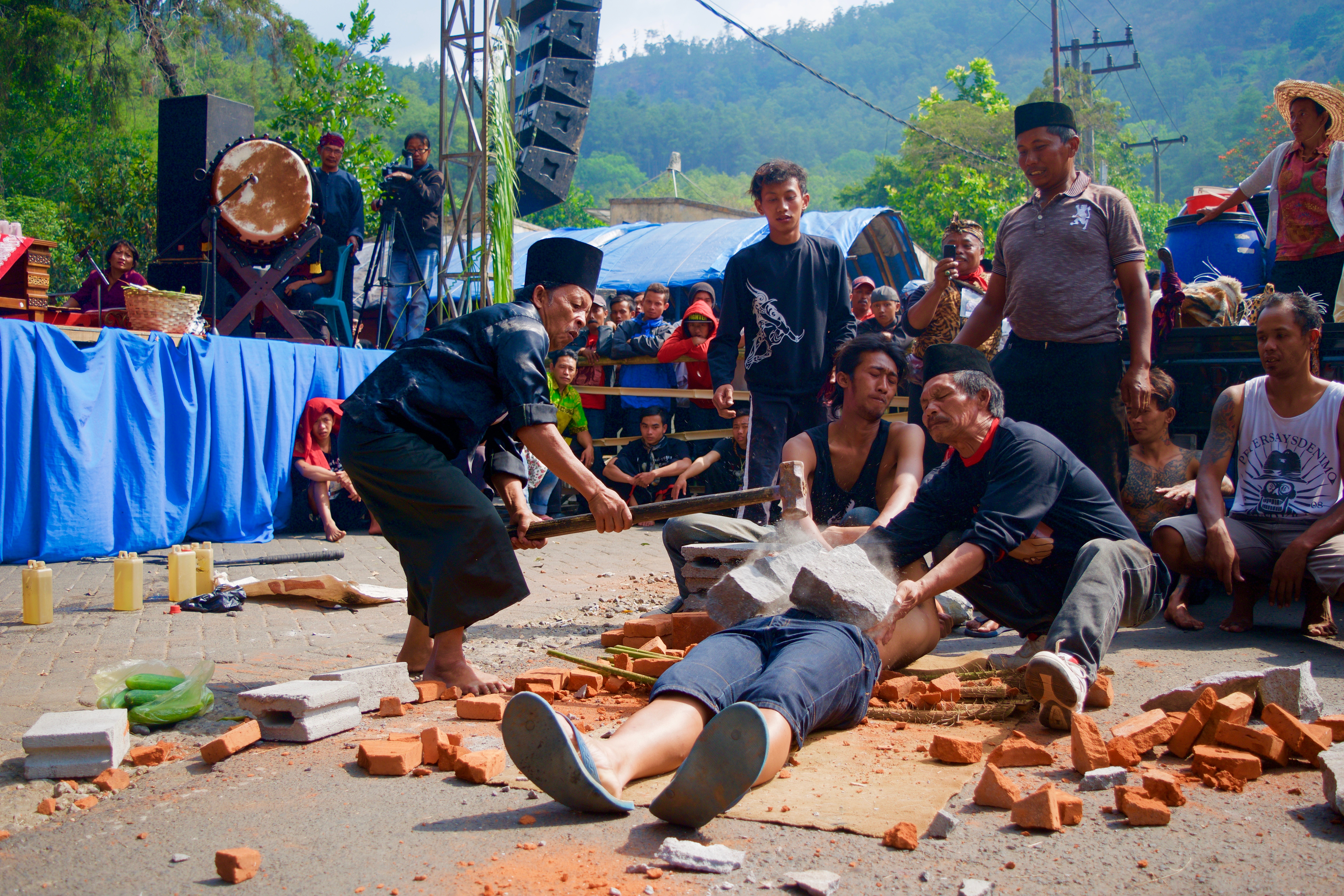 A traditional tradition called "Arak-arakan Banteng Suroan" from people in Kota Batu who celebrate this tradition every year in month of 'Suro'.